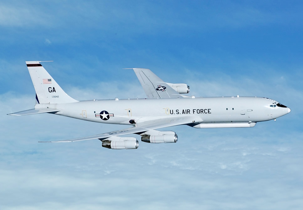 The E-8C Joint Surveillance Target Attack Radar System is a joint Air Force - Army program. The Joint STARS uses a multi-mode side looking radar to detect, track, and classify moving ground vehicles in all conditions deep behind enemy lines.